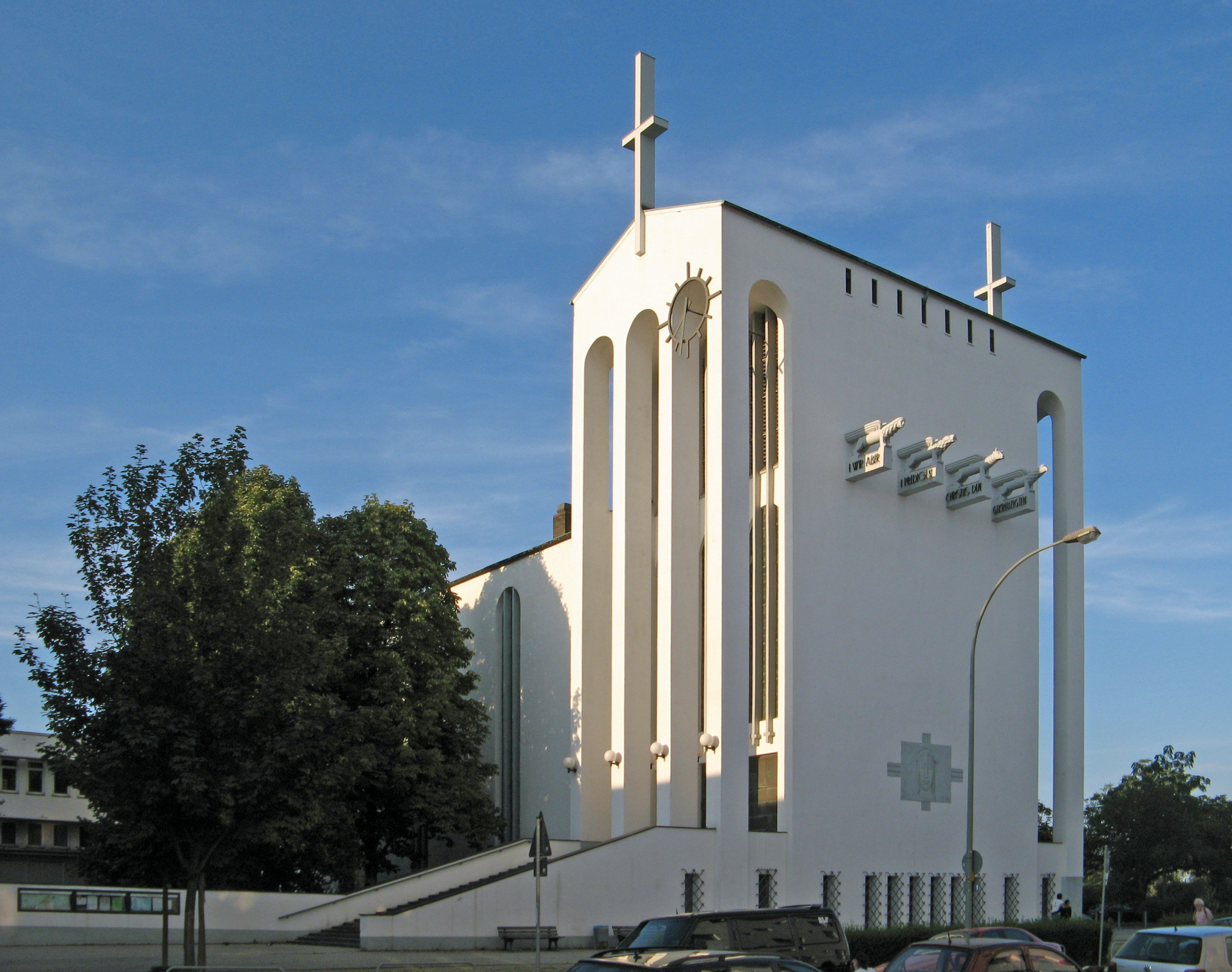 Holy Cross Church in Frankfurt am Main-Bornheim